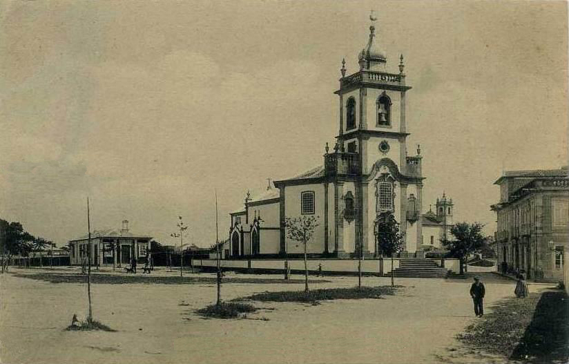 Senhora das Dores church in 1906. Postcard publisher: Manoel Carneiro & Irmão - Braga Image digitally cleaned by PedroPVZ